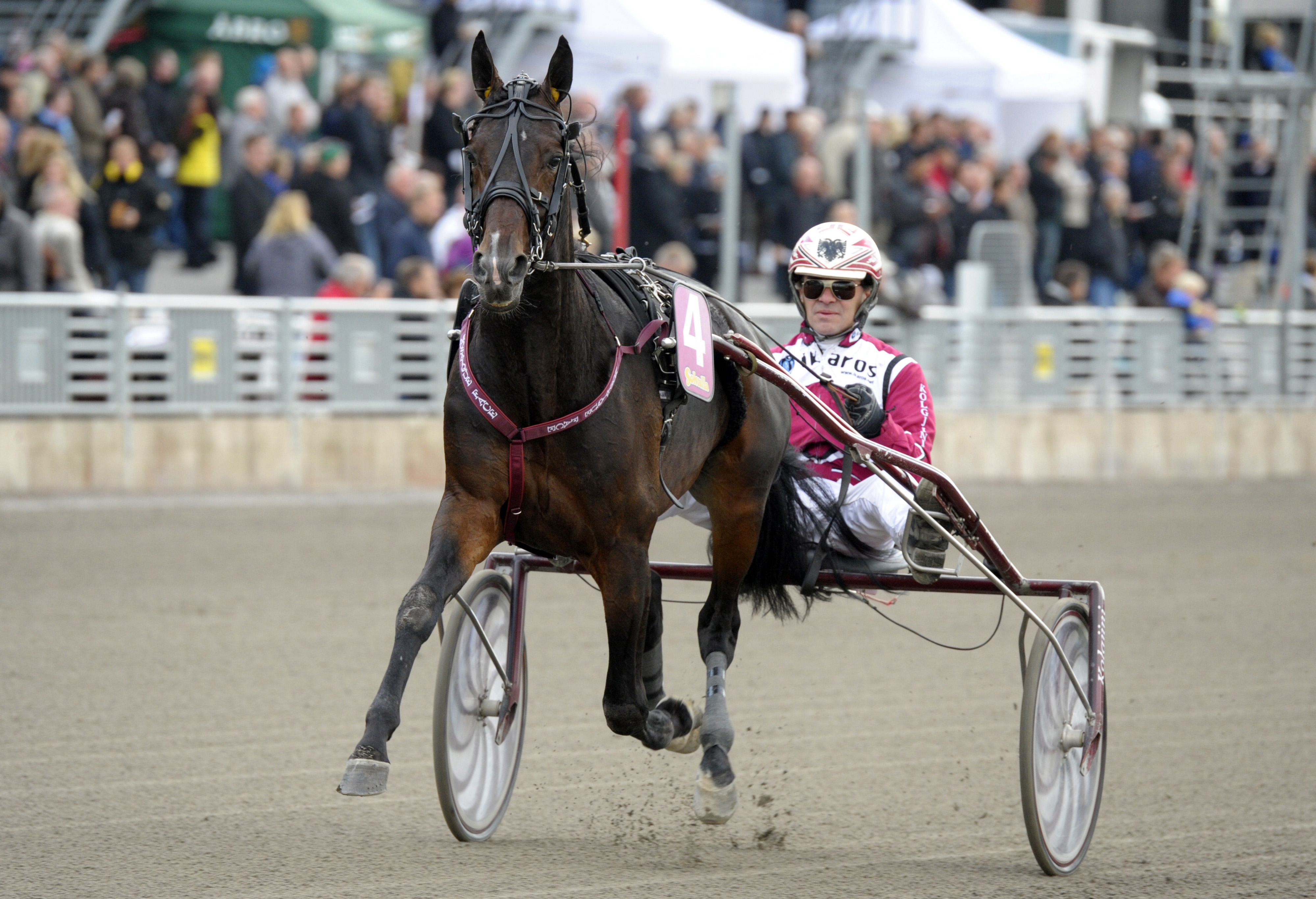 Trotting horse Mosaique Face and Lutfi Kolgjini 2013-09-29.